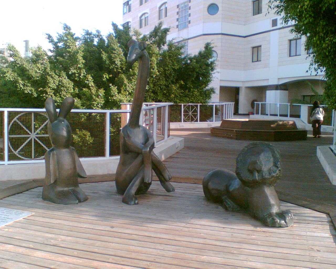 Lion, Giraffe and Rabbit, heroes of the story "Mits Petel" (מיץ פטל), Created by the author, Tamara Rikman, in front of the Schneider children hospital